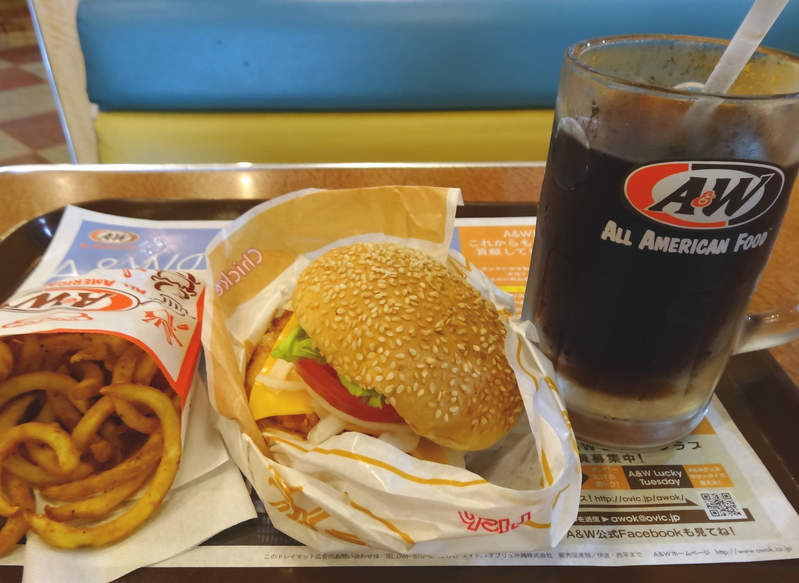 A&W Okinawa - DX Chicken Sandwich, Curly Files, and Root Beer.